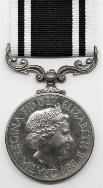 British medal for long service by prison officers, introduced in 2010